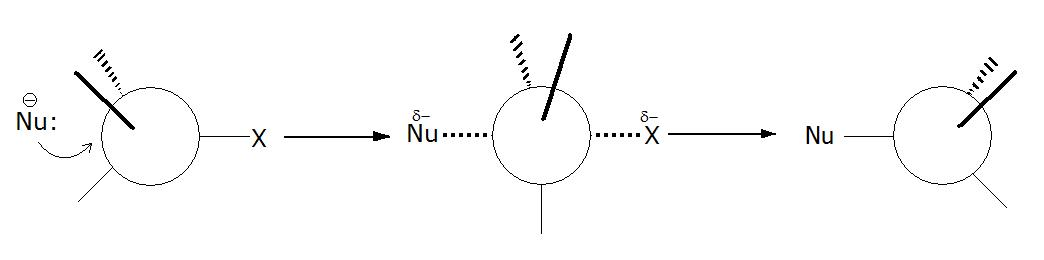 Sn2 reaction mechanism